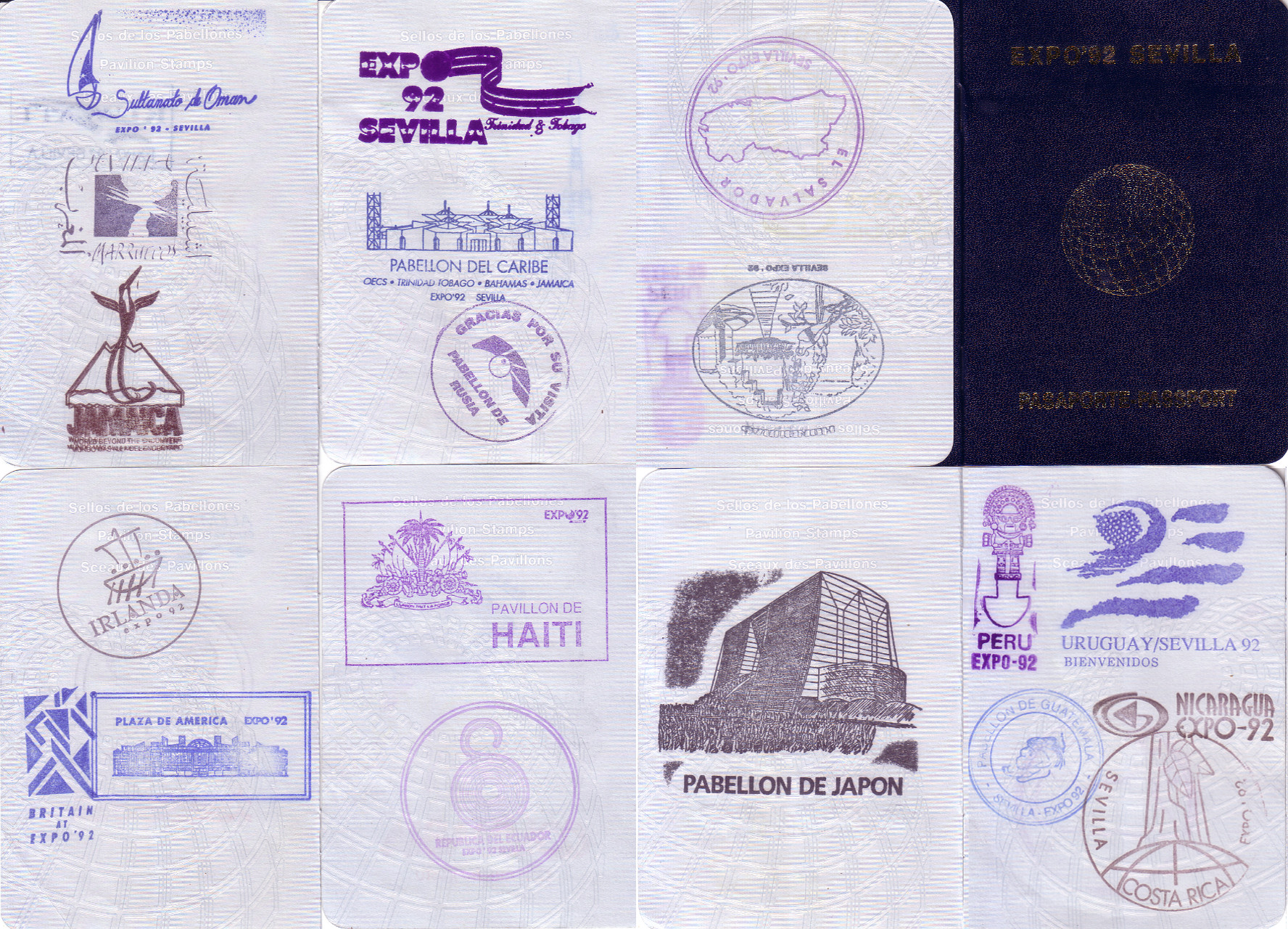 Passport and some stamps of the pavilions I visited..